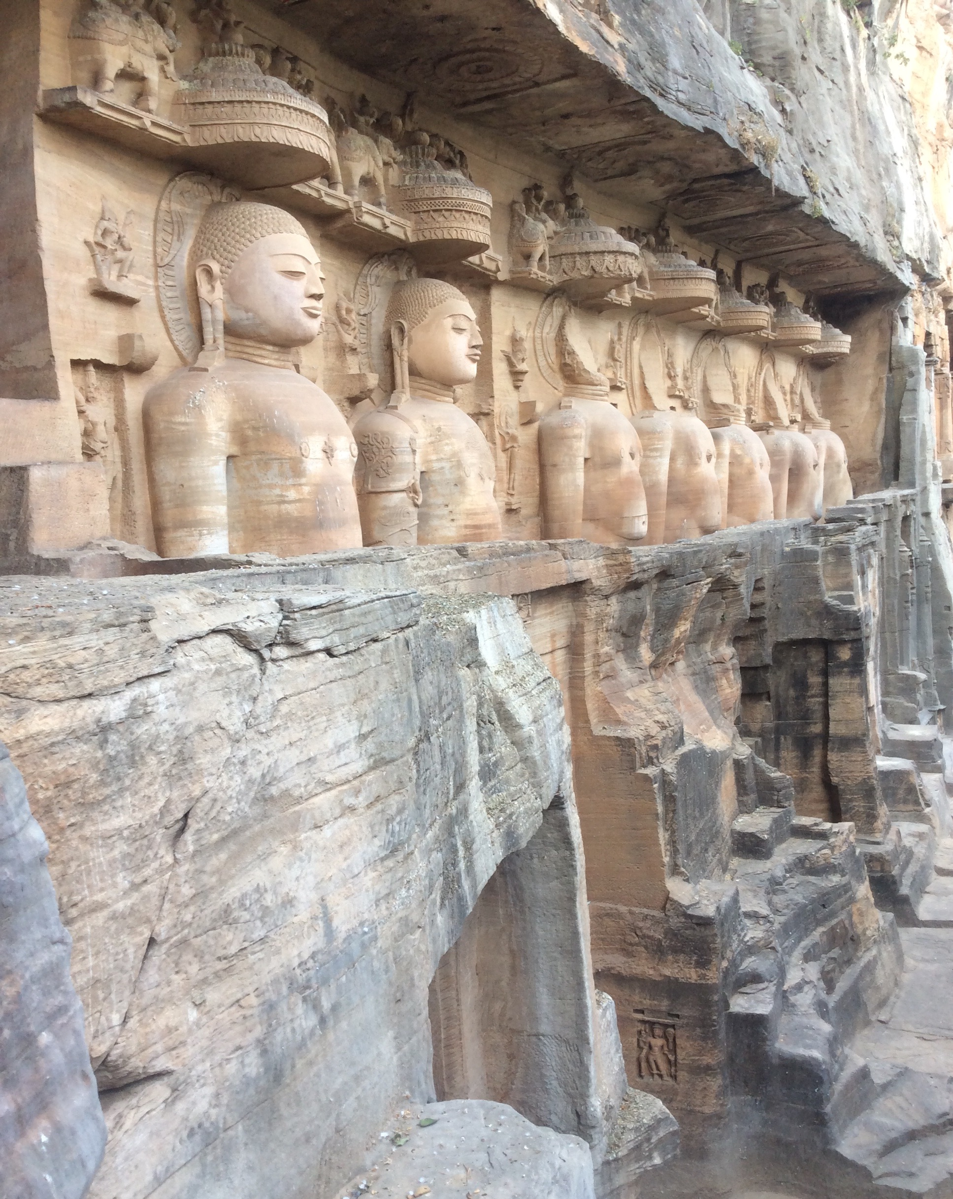 Colossal Jain idols at Gopachal, partly defaced.